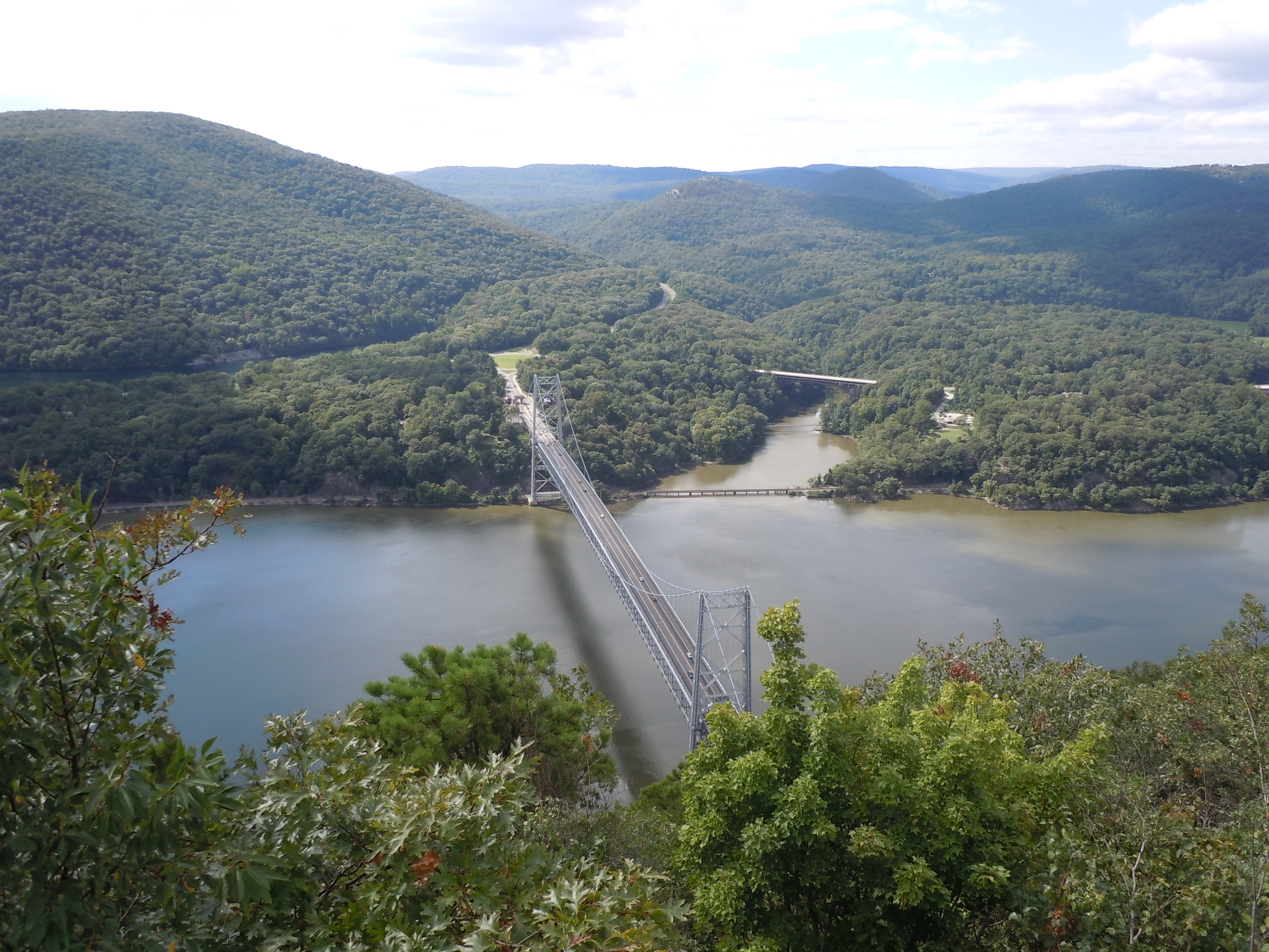 Bear Mountain Bridge View from Anthony's Nose